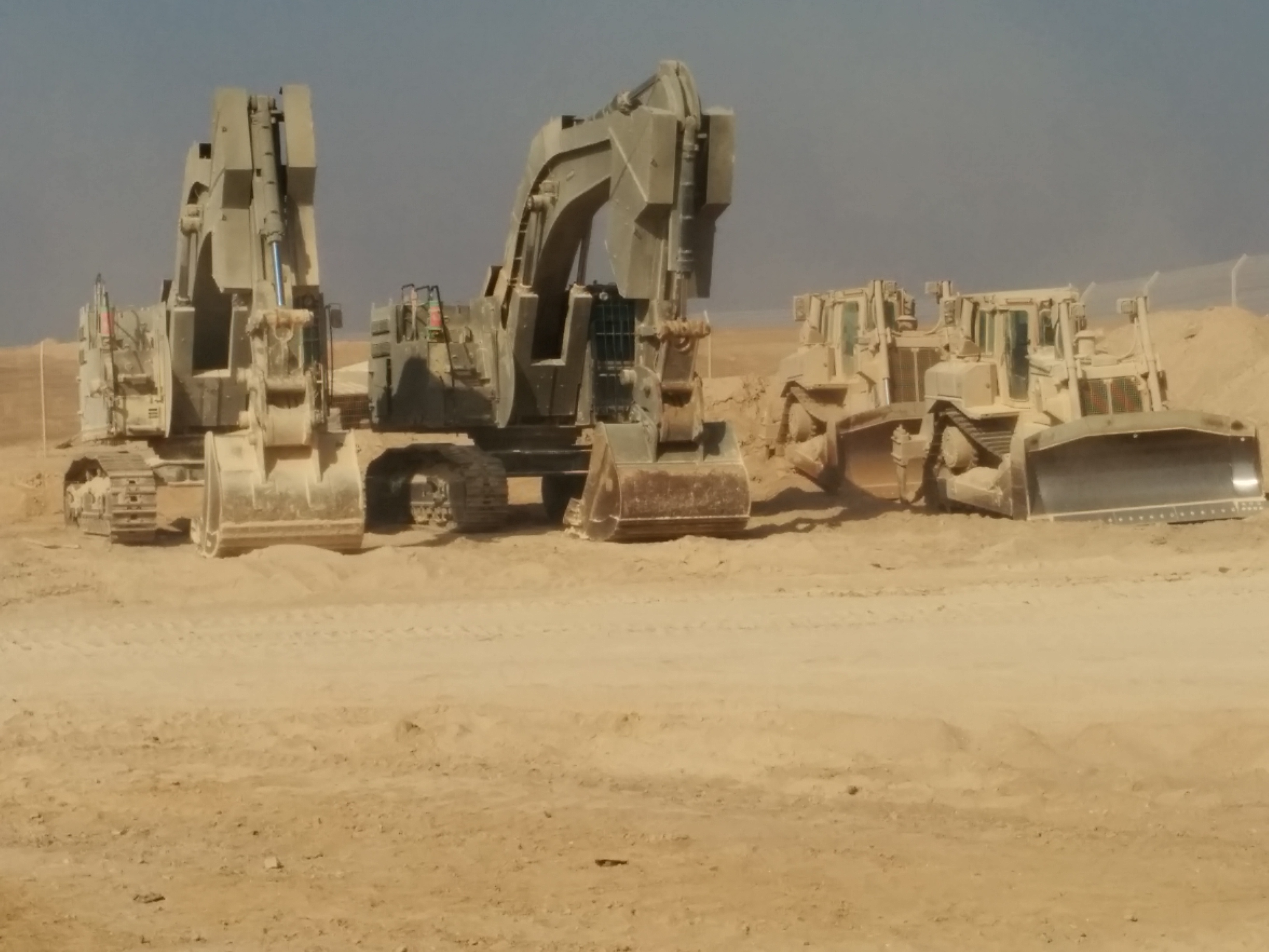 IDF Caterpillar armored excavators and two Caterpillar D7 bulldozers of the IDF Combat Engineering Corps